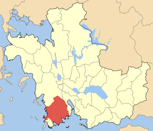 Locator map of Oiniadon municipality (Δήμος Οινιάδων) at Aitoloakarnania perfecture, Greece.